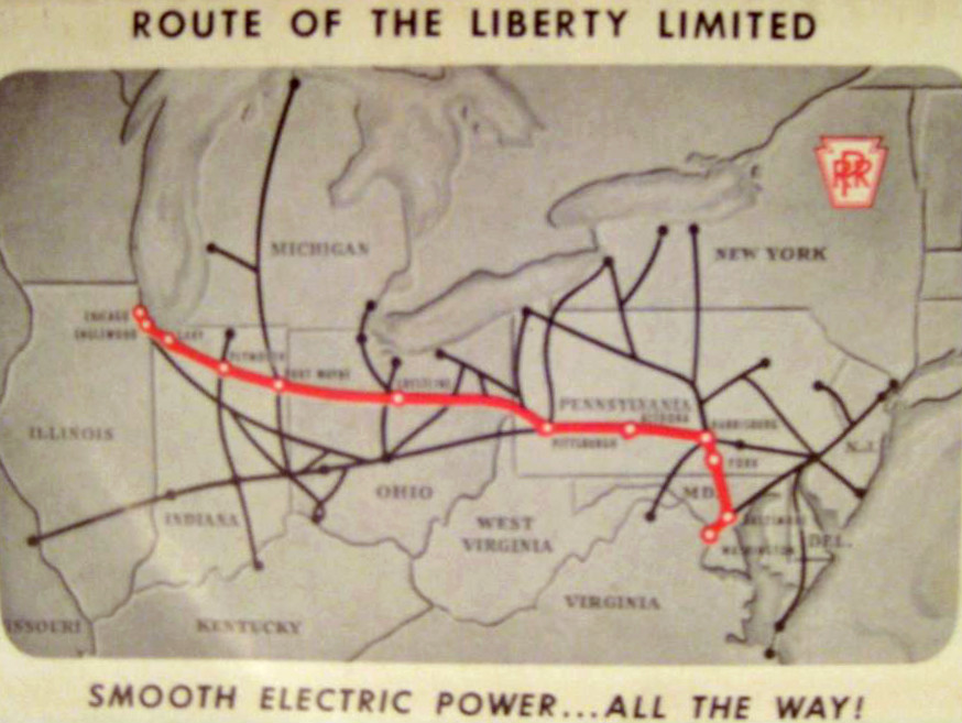 Portions of a 1952 Pennsylvania Railroad brochure for its train, the Liberty Limited, which traveled between Washington DC and Chicago. This is the route map of the train.